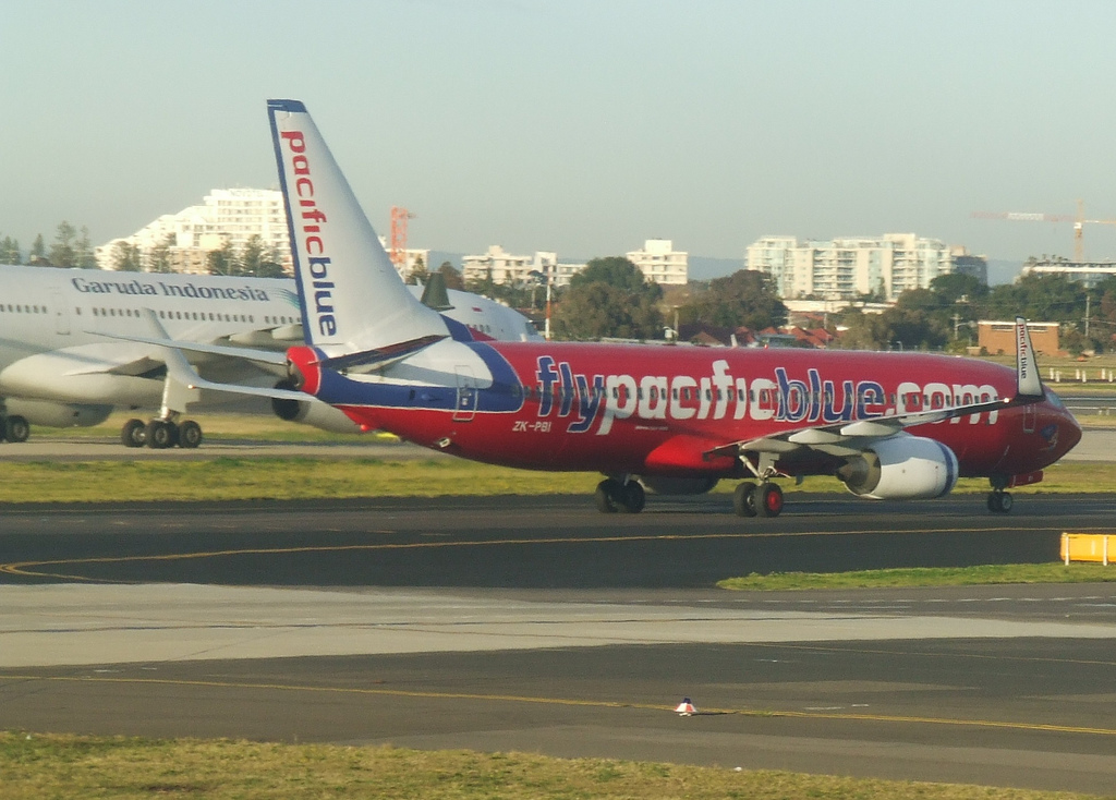 Pacific Blue 737 & Garuda Indonesia Airbus A330 both in the queue for a gate in Sydney.